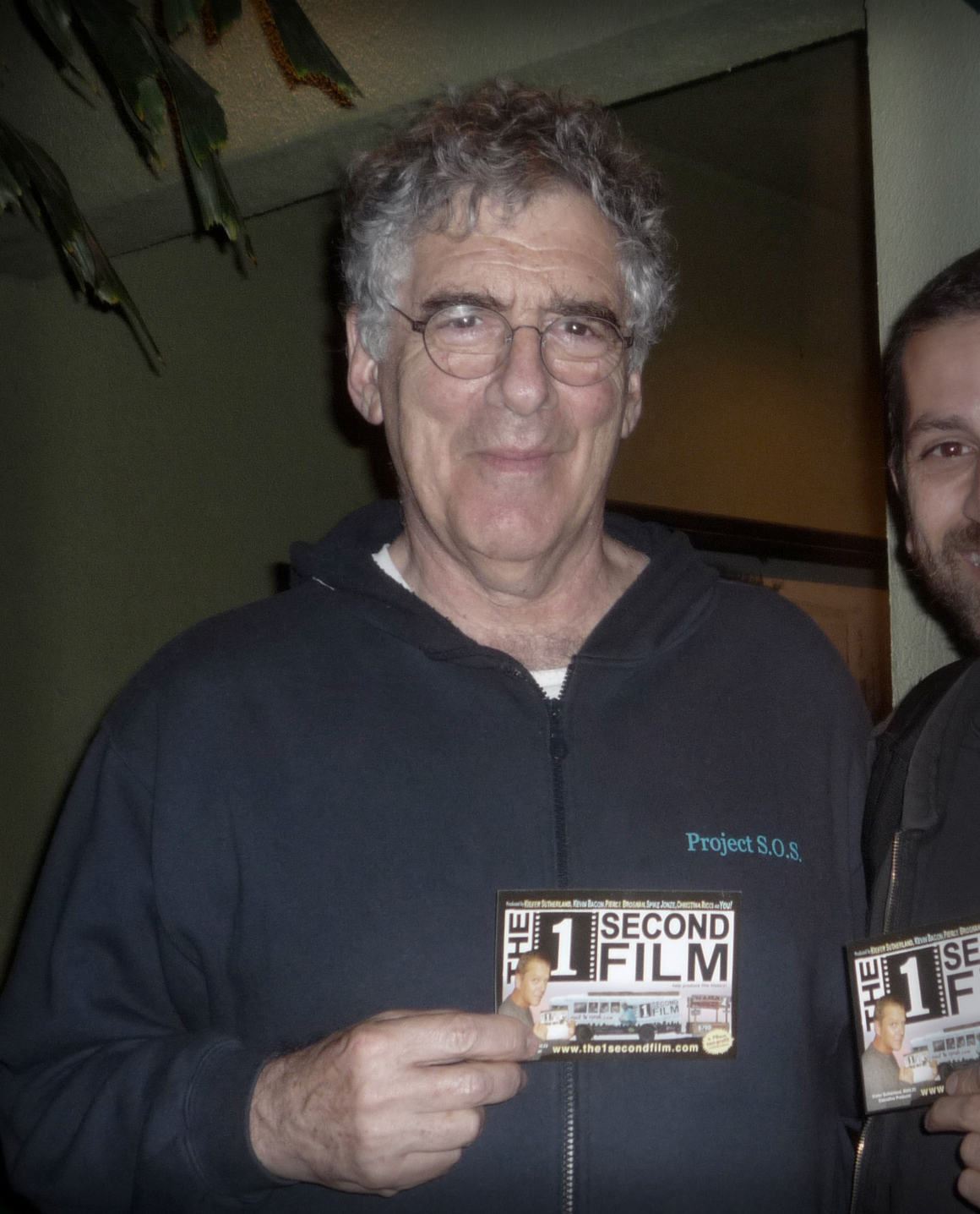 Elliot Gould holding his producer credit for The 1 Second Film in June of 2009.